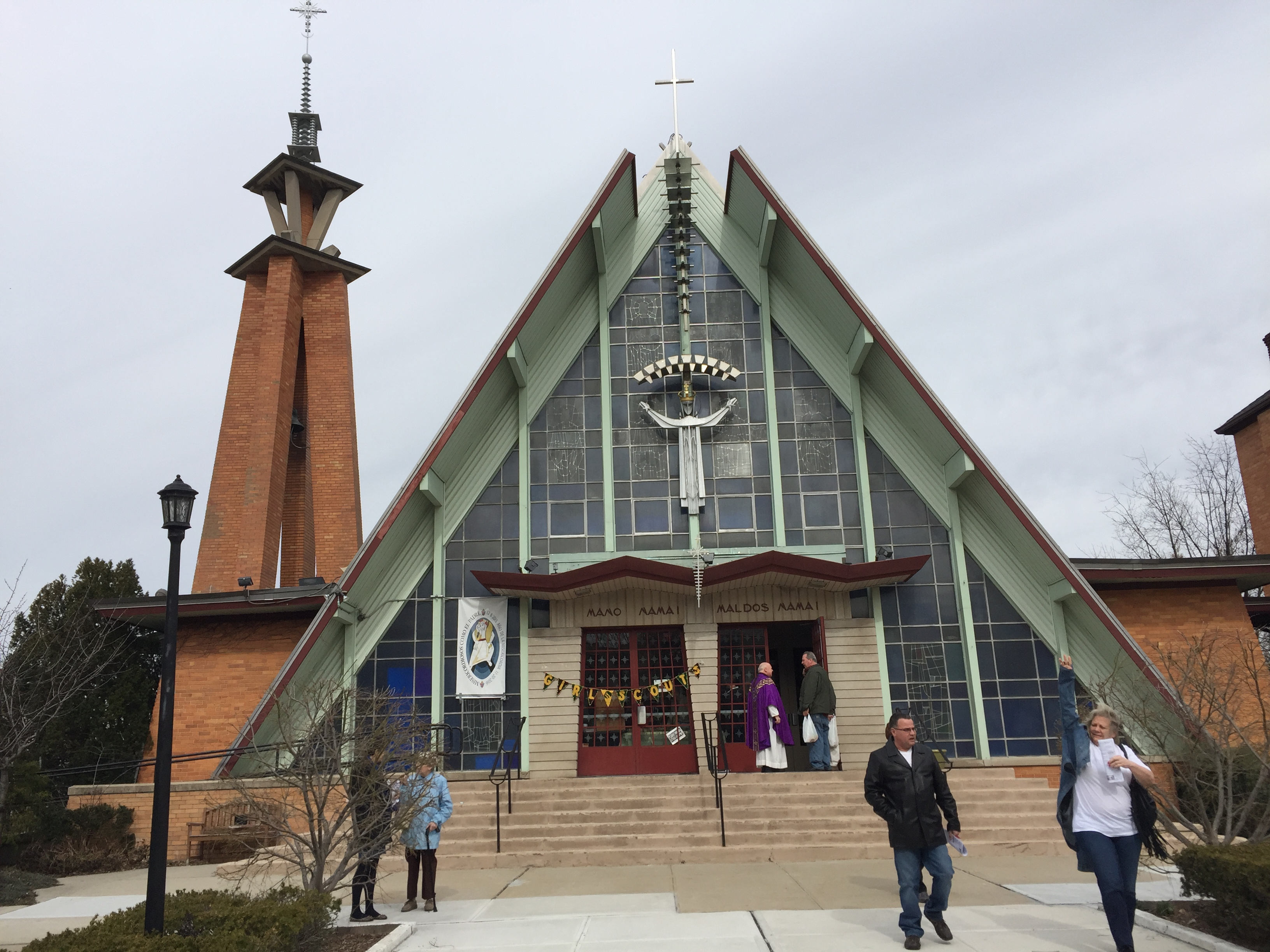 Front view of the Transfiguration Roman Catholic Church in Maspeth, Queens, New York.